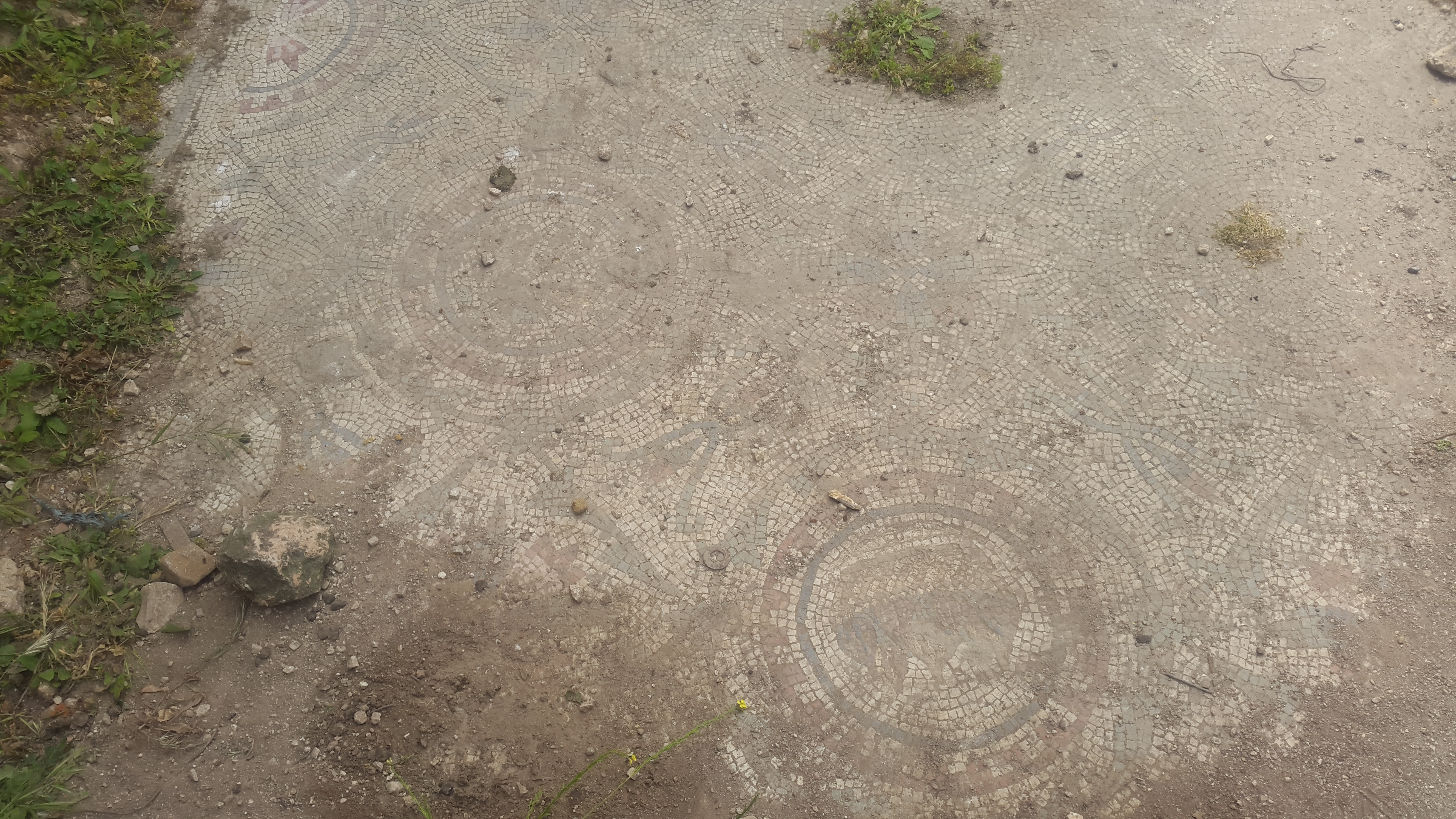 Mosaic in Furnos Minus in Borj El Amri, Manouba